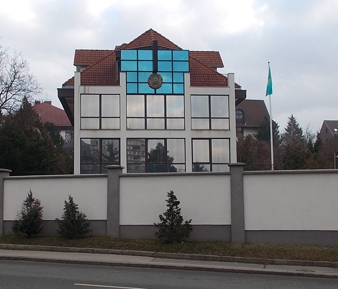 Embassy of the Republic of Kazakhstan. [1]. - 59 Kapy Street, Vérhalom neighbourhood, Budapest District II.